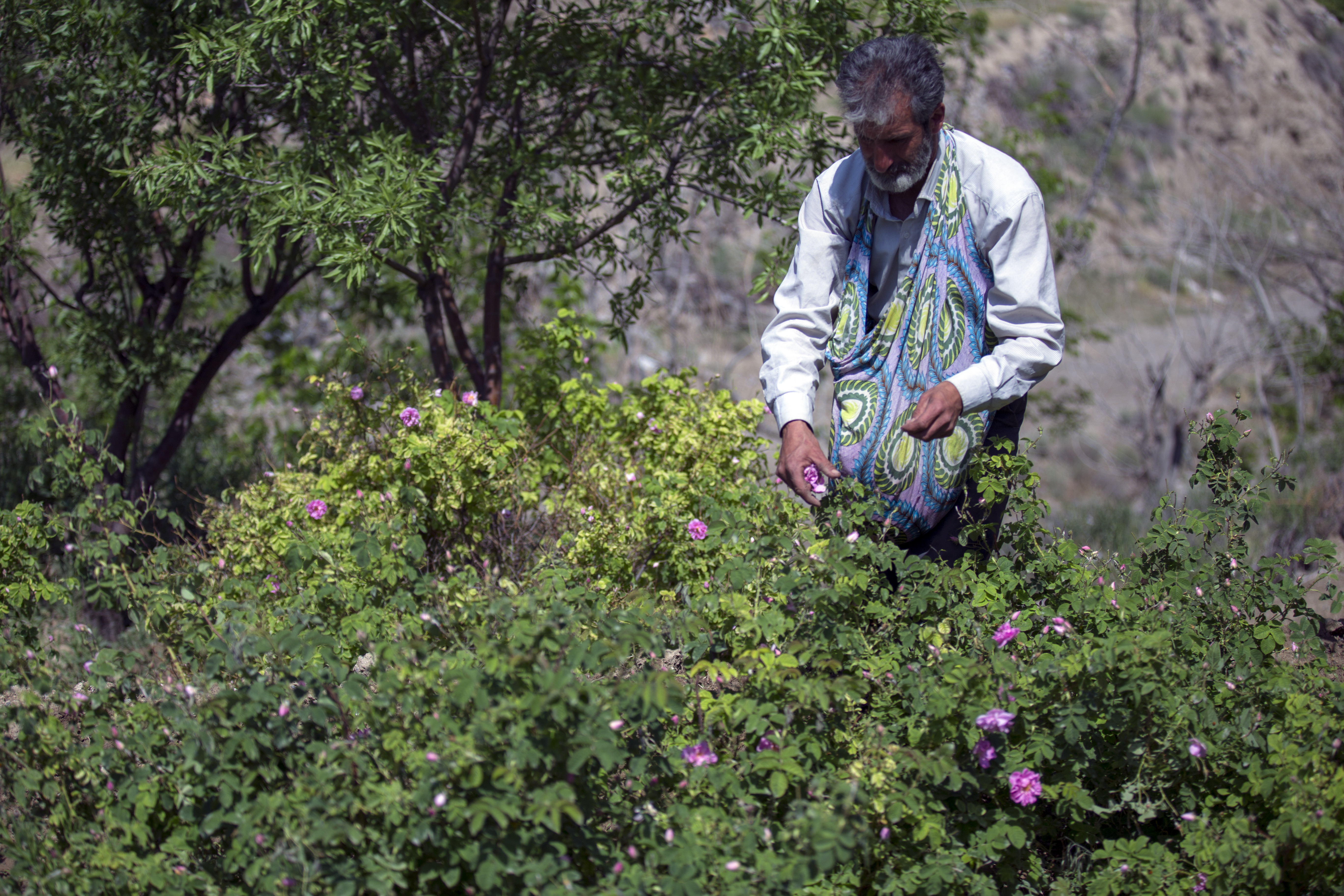 گلاب‌گیری مراسمی است که همه ساله از نیمه‌های اردیبهشت تا نیمه‌های خرداد در بخش‌های مختلف کاشان همچون قمصر و نیاسر و برزک انجام می‌شود. در این مراسم که سالانه بیش از یک میلیون نفر گردشگر به خود جذب می‌کند، از گل‌های سرخی که در این مناطق کاشته شده‌اند، گلاب تهیه می‌شود. در هزار و پانصد واحد گلابگیری که در کاشان وجود دارد، سالانه پانزده هزار تن گلاب سنگین تولید می‌شود. عکس ها مربوط به مراسم گلابگیری در شهر قمصر کاشان (ویکی پدیا)